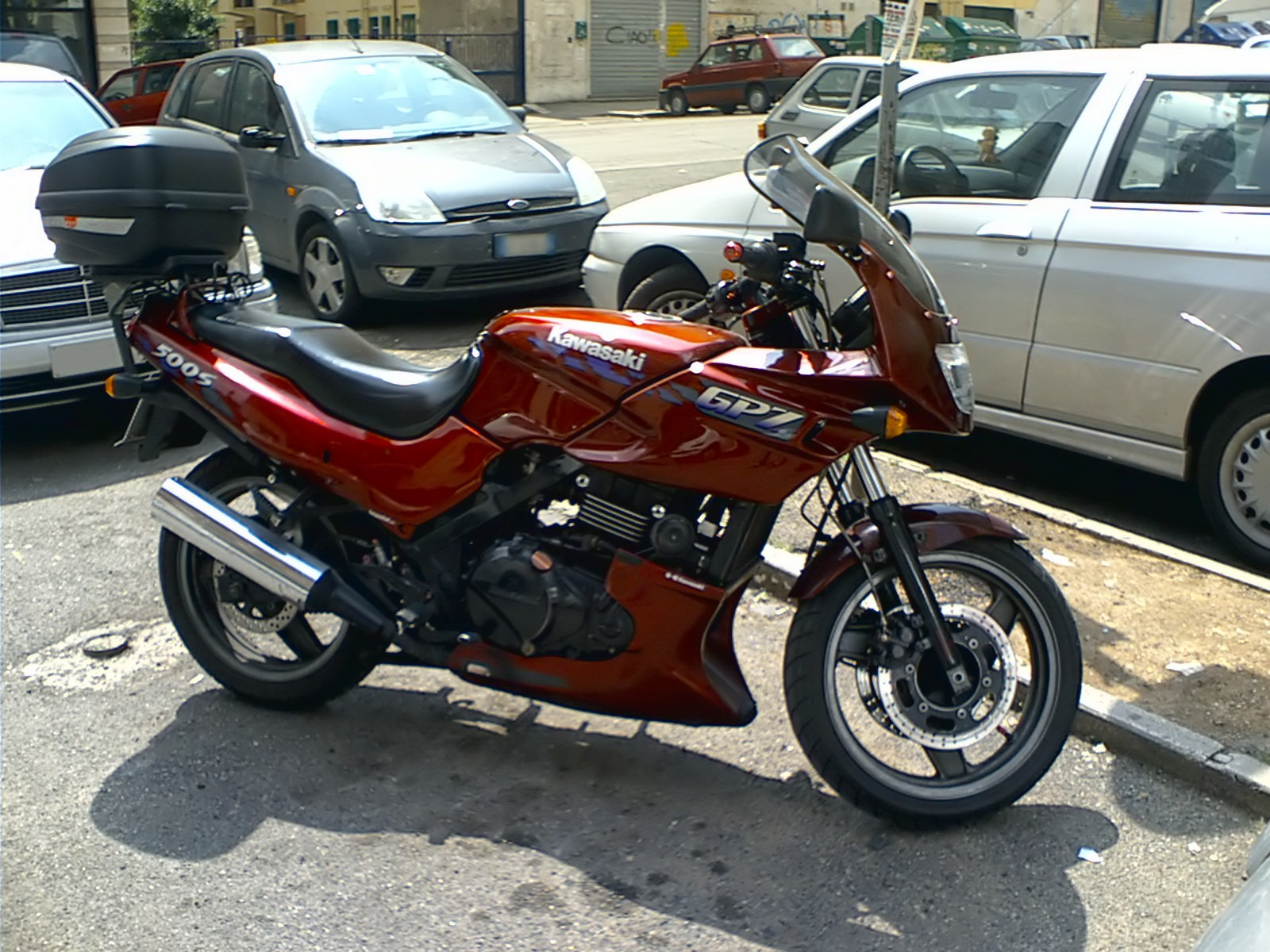 A 1994 Kawasaki GPZ 500 S motorcycle (also known as Ninja 500 or EX 500). Side view.